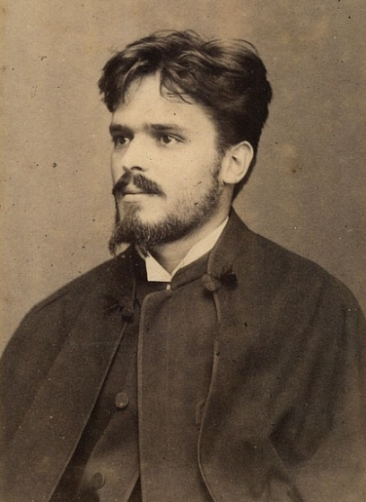 António José de Almeida as a Medicine student at the University of Coimbra (1889-1896).